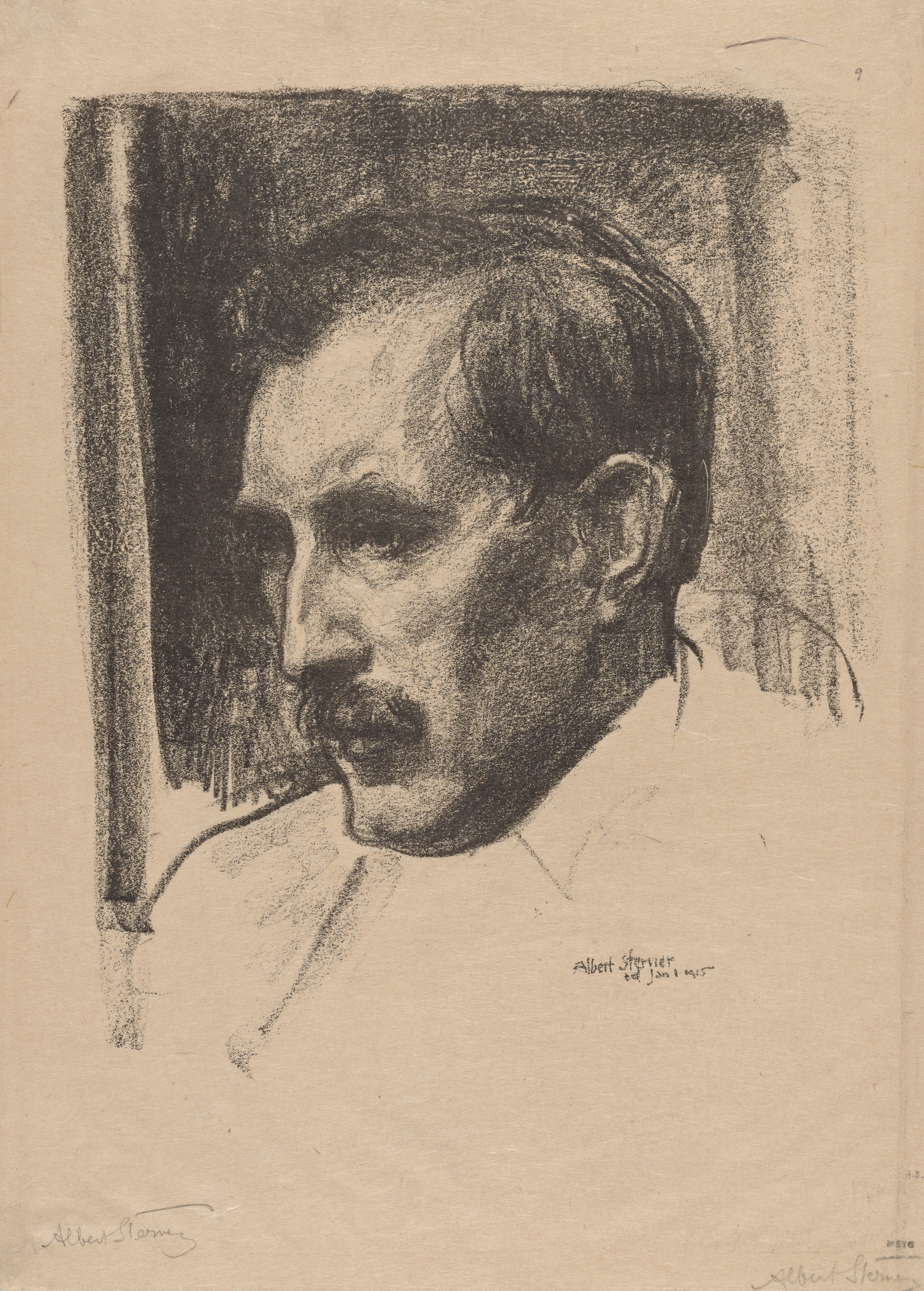 Lithograph: Edmond T. Quinn